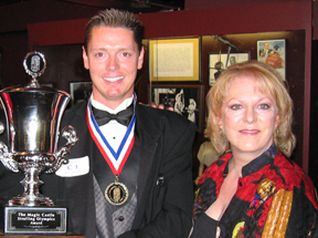 Rich Ferguson with Gay Blackstone at the world famous Magic Castle. Pictured is Rich Ferguson receiving an award for magic.